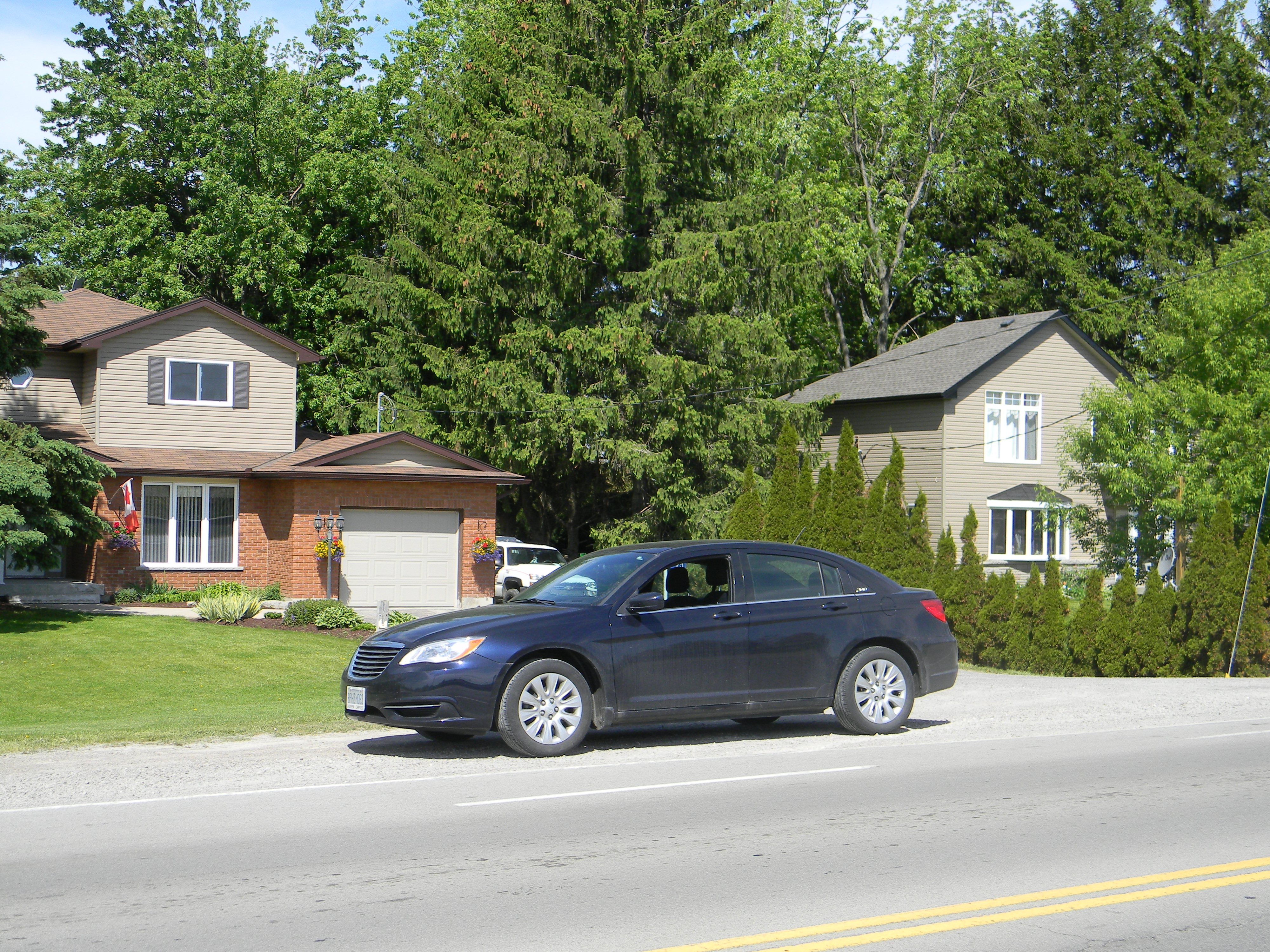 Copetown, West Flamborough, Ontario, Canada